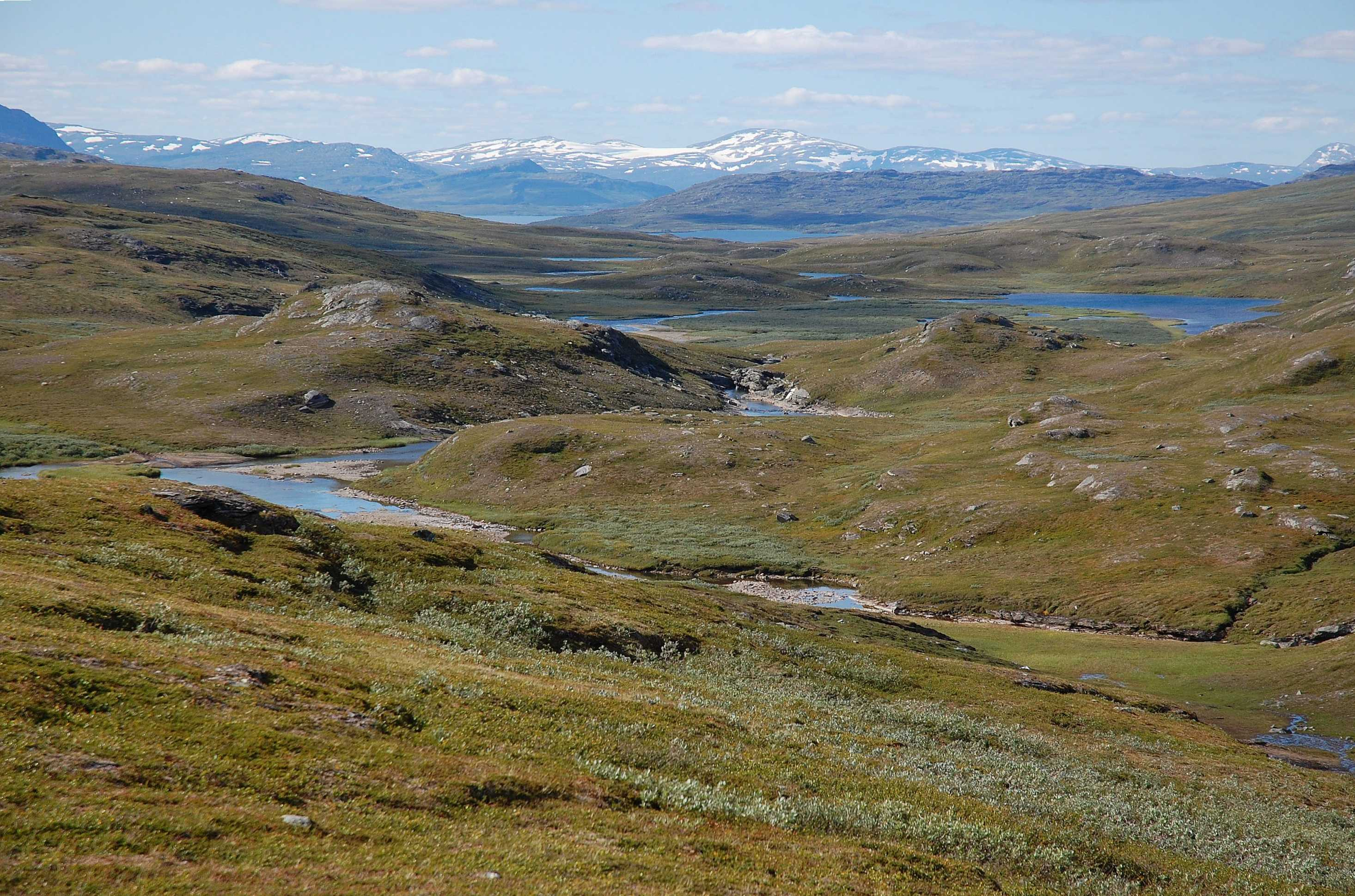 Padjelanta national park